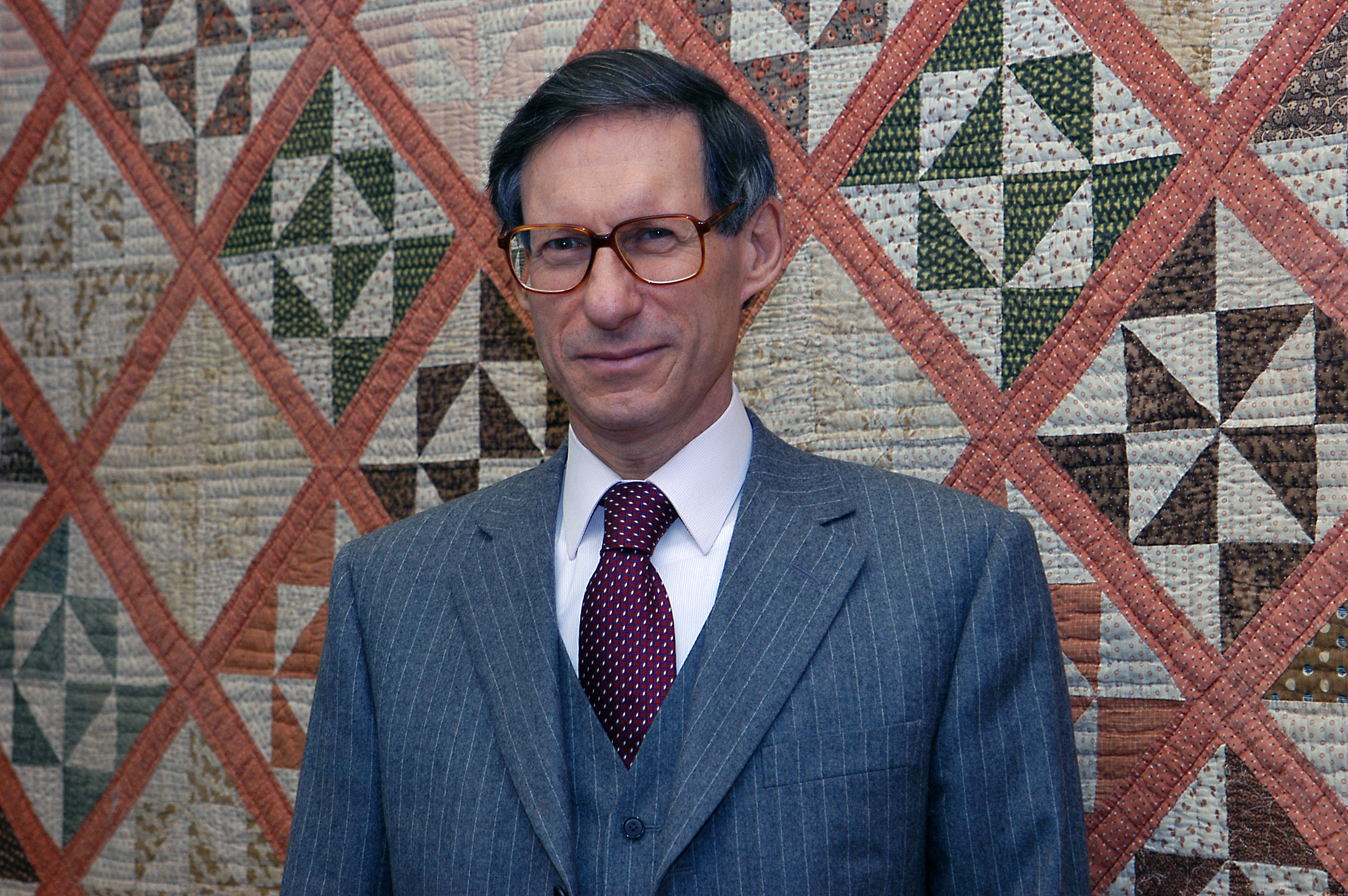 Historical IAEA - Personalities On 12 March 1999, Director General of the International Atomic Energy Agency (IAEA), Dr. Mohamed ElBaradei, has announced the following appointment: Mr. Pierre Goldschmidt, from Belgium, as Deputy Director General, Head of the Department of Safeguards, to be effective 1 May 1999. Mr. Goldschmidt studied Electro-Mechanical Engineering at the Free University of Brussels in Belgium and at the University of California, Berkeley, USA. He graduated with a Ph.D. in Electro-Mechanical Engineering from the Free University of Brussels. In 1979 he was awarded a diploma in Marketing and Management from the Solvay Ecole de Commerce. From 1966 to 1971 Mr. Goldschmidt was employed as an engineer at Belgonucléaire. In 1971 he joined Electrobel Engineering in Belgium as Engineer and then Chief Engineer. In 1977 he joined SYNATOM in Brussels where he has held the position of General Manager since 1987. Since 1978, Mr. Goldschmidt has been a member of the Advisory Committee of the EURATOM Supply Agency as well as of the Executive Committee of the Uranium Institute, London. From 1993 he has been a member of the Executive Committee of EURODIF, France, and for the last three years he has been Chairman of the Organisation des Producteurs d’Energie Nucléaire (OPEN) in France. Photo Credit: Dean Calma / IAEA